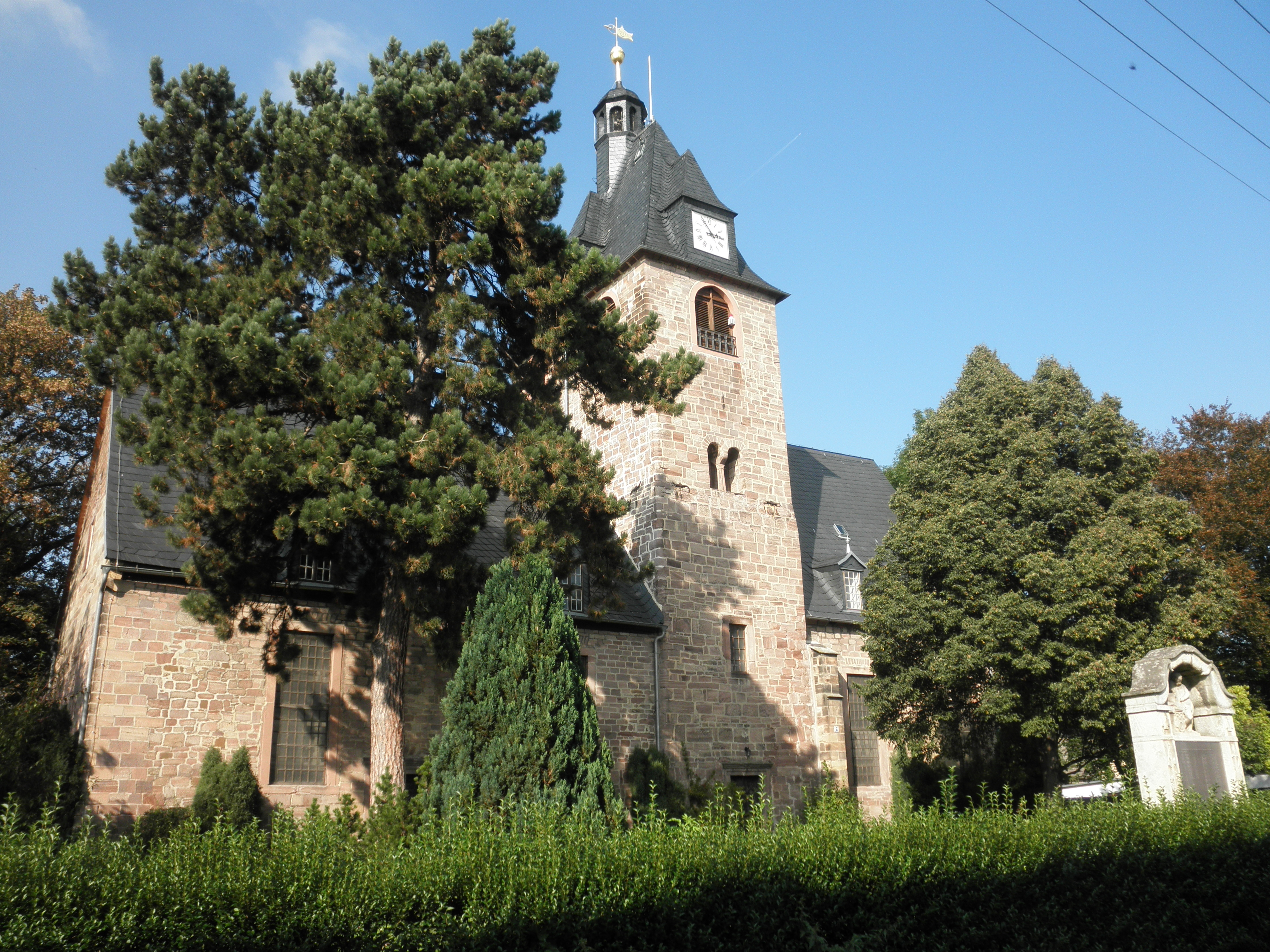 Church in Ringleben (bei Artern) in Thuringia